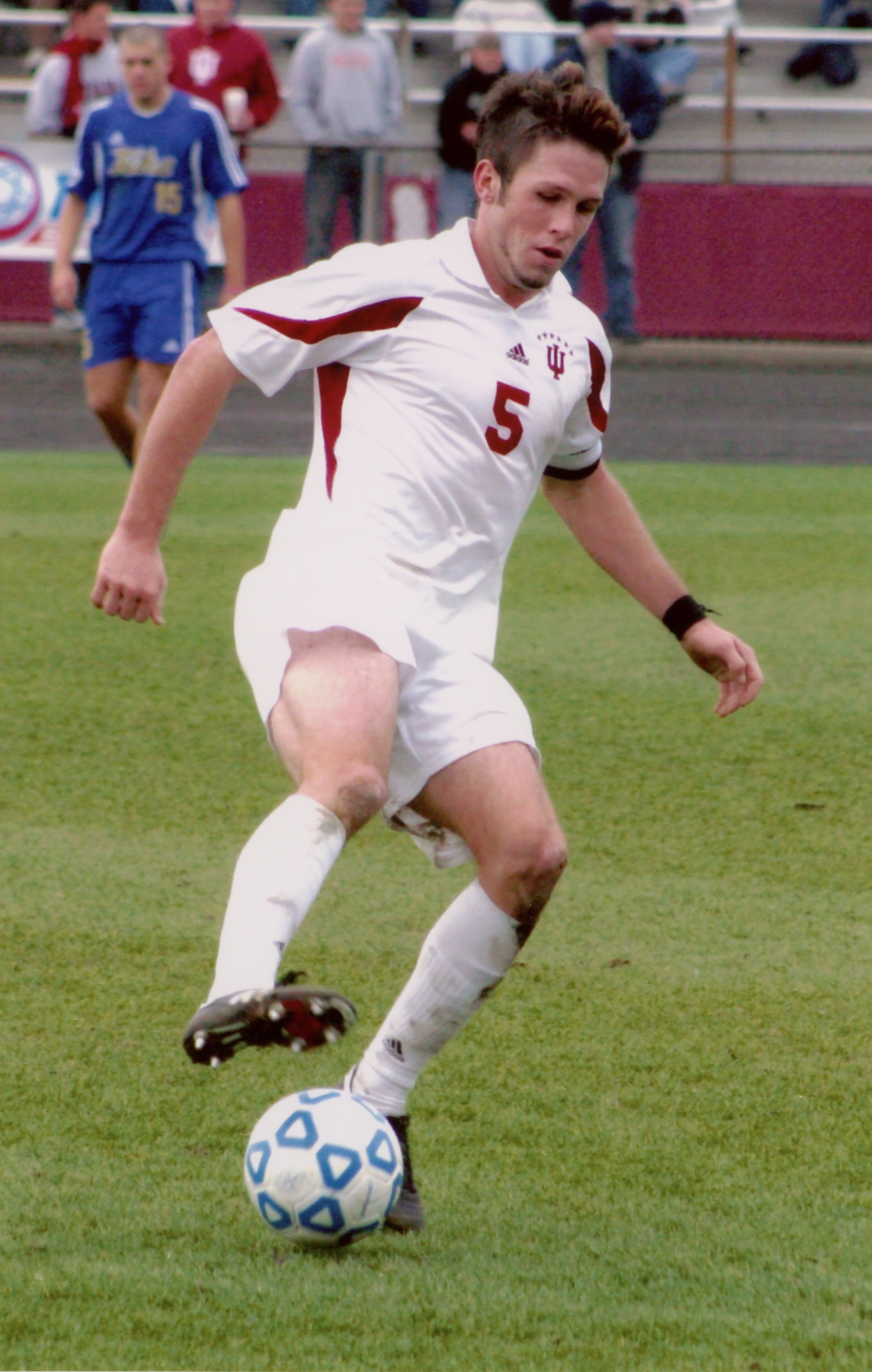 Danny O'Rourke, 2004 Hermann Trophy winner, playing for Indiana University in 2004, by Rick Dikeman